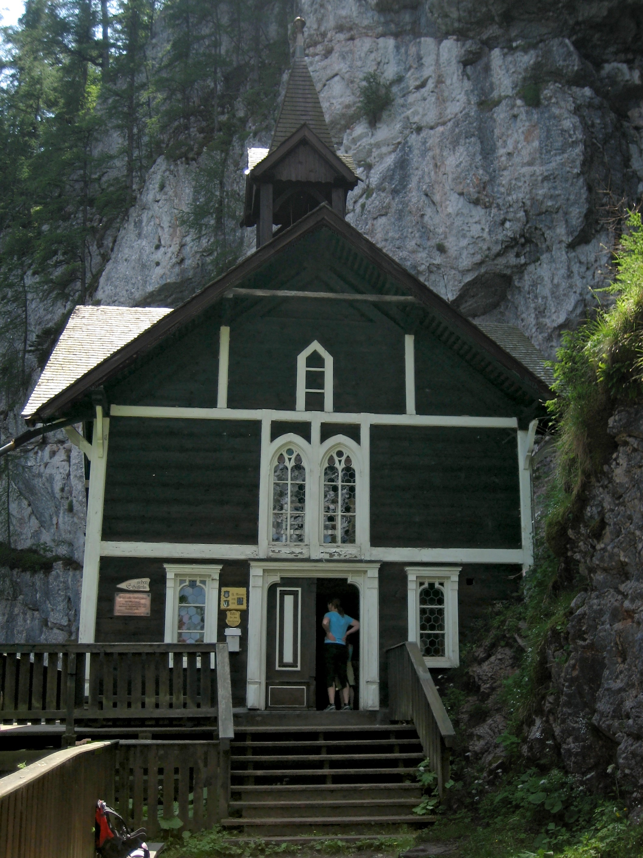 Church "Schüsserlbrunn" on Mount Hochlantsch in Styria, Austria